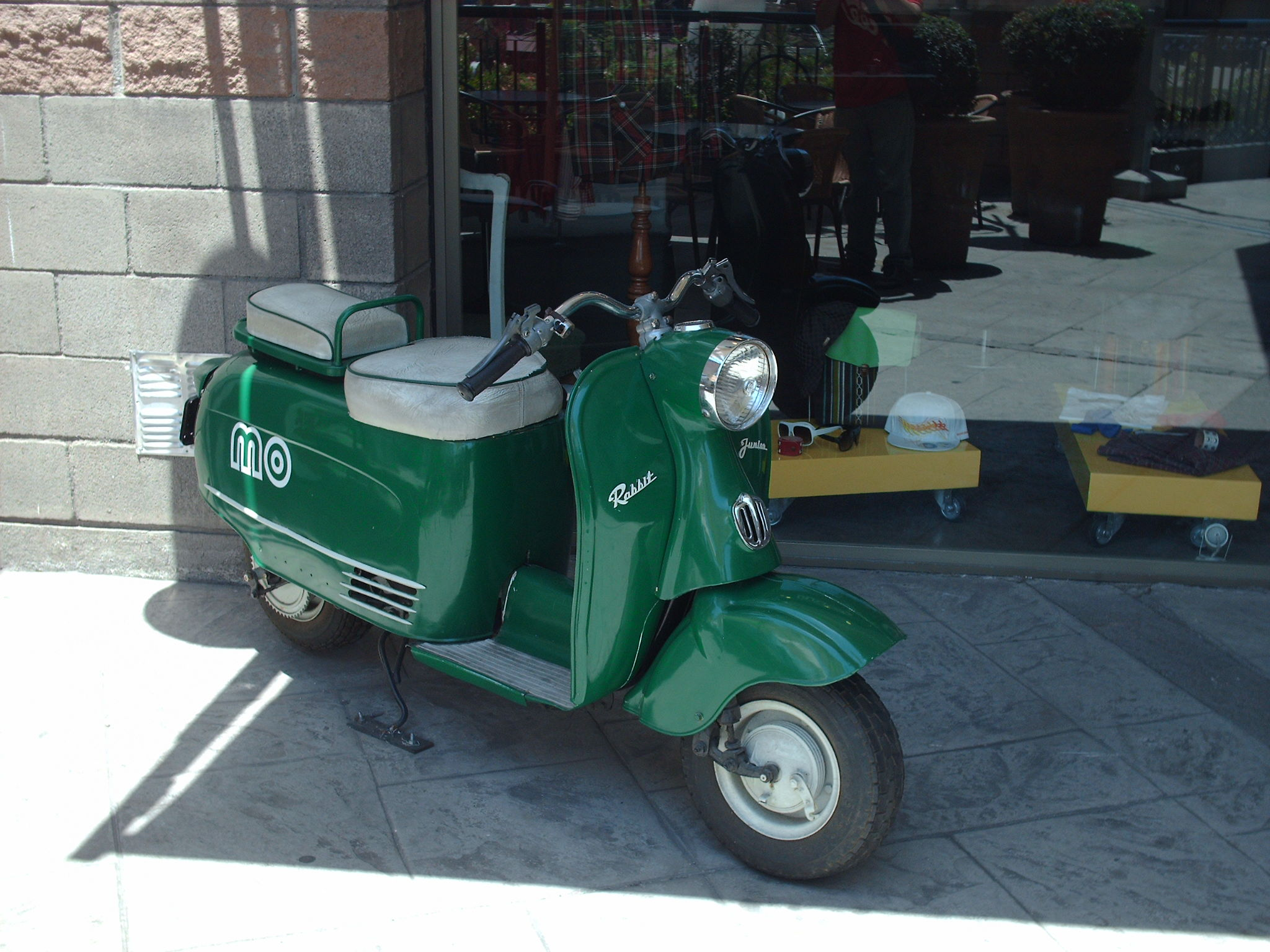 Fuji Rabbit Junior in front of a boutique in Parque Arauco mall, Santiago, Chile, January 2009.